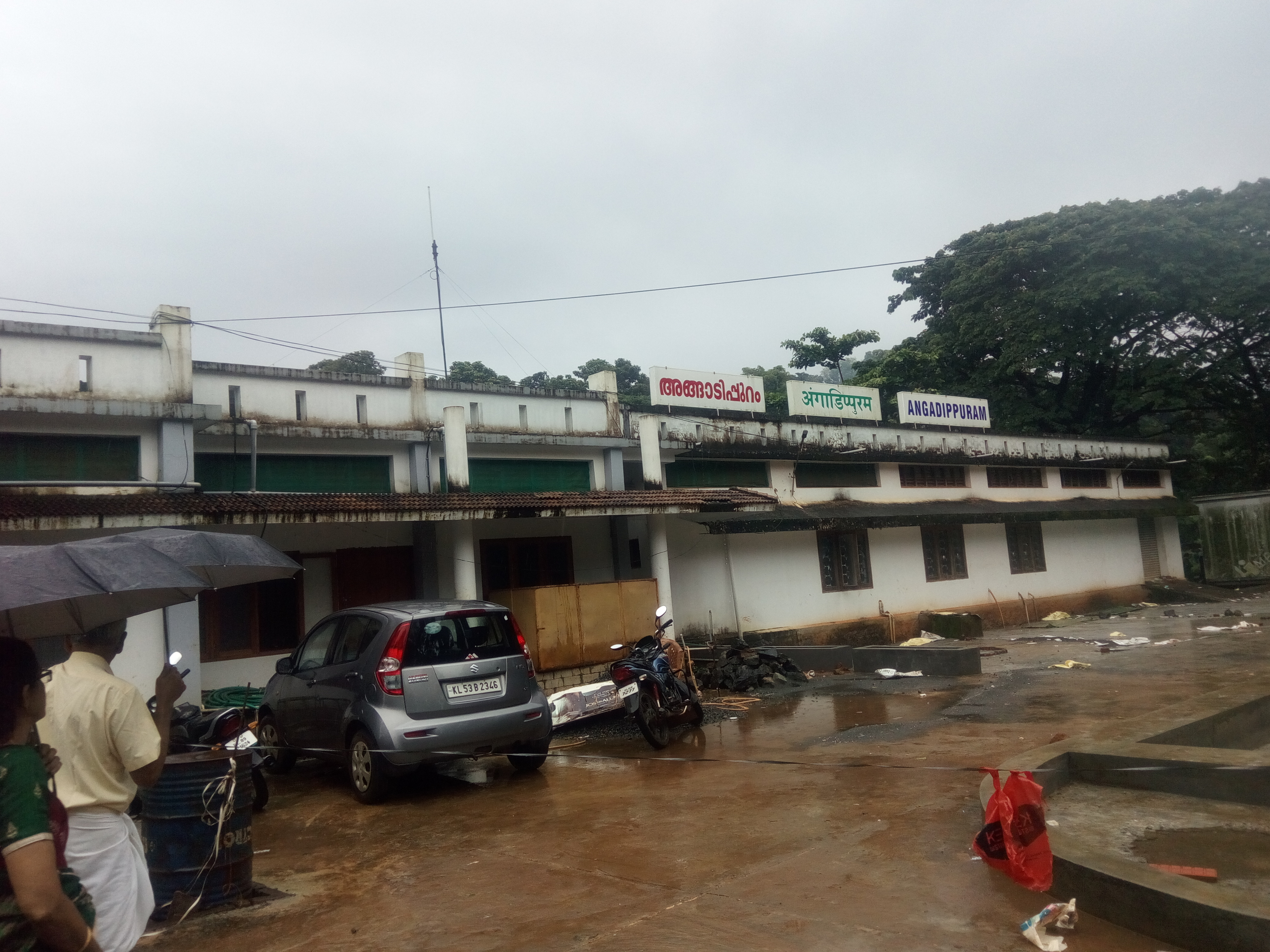 Angadipuram railway station is on Nilambur-shornur routes